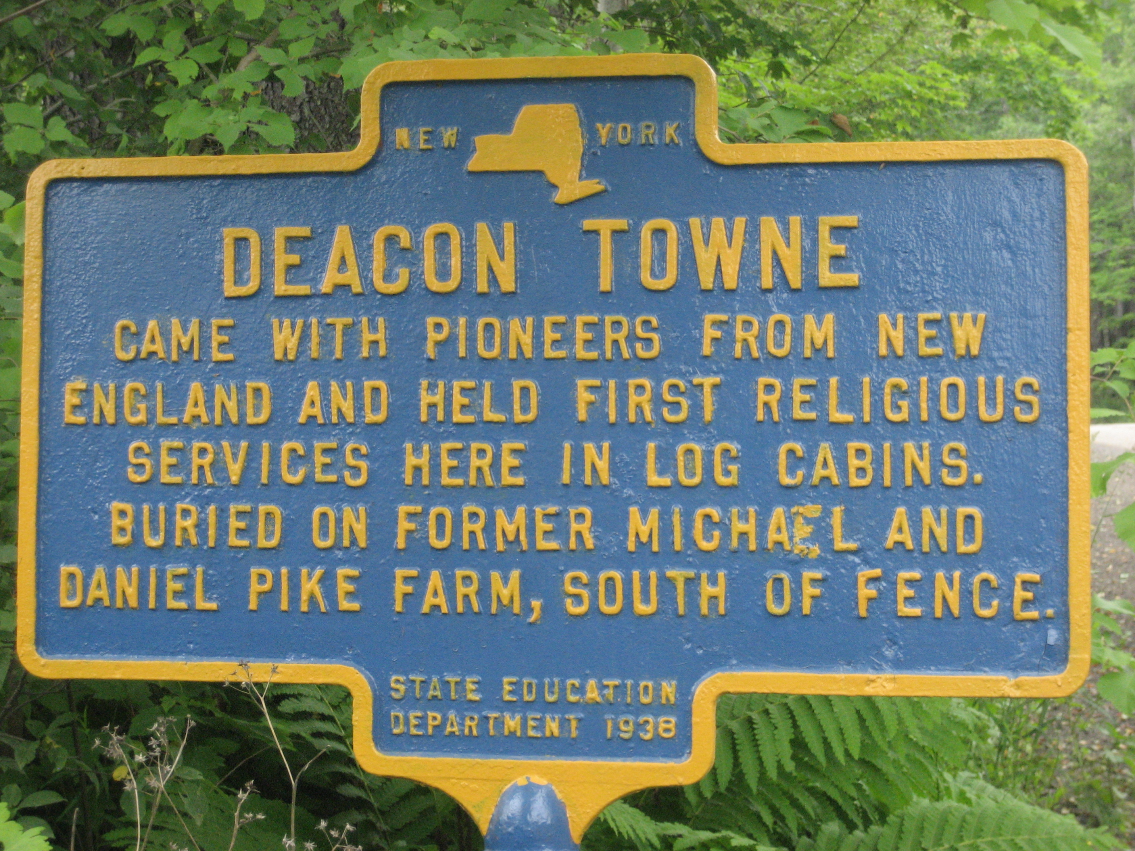 Historic marker of Deacon Towne, from New England and held the first religious service here in log cabins. Buried on former Michael & Daniel Pike farm, south of fence, McDonough, NY